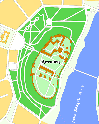 The Kremlin Park